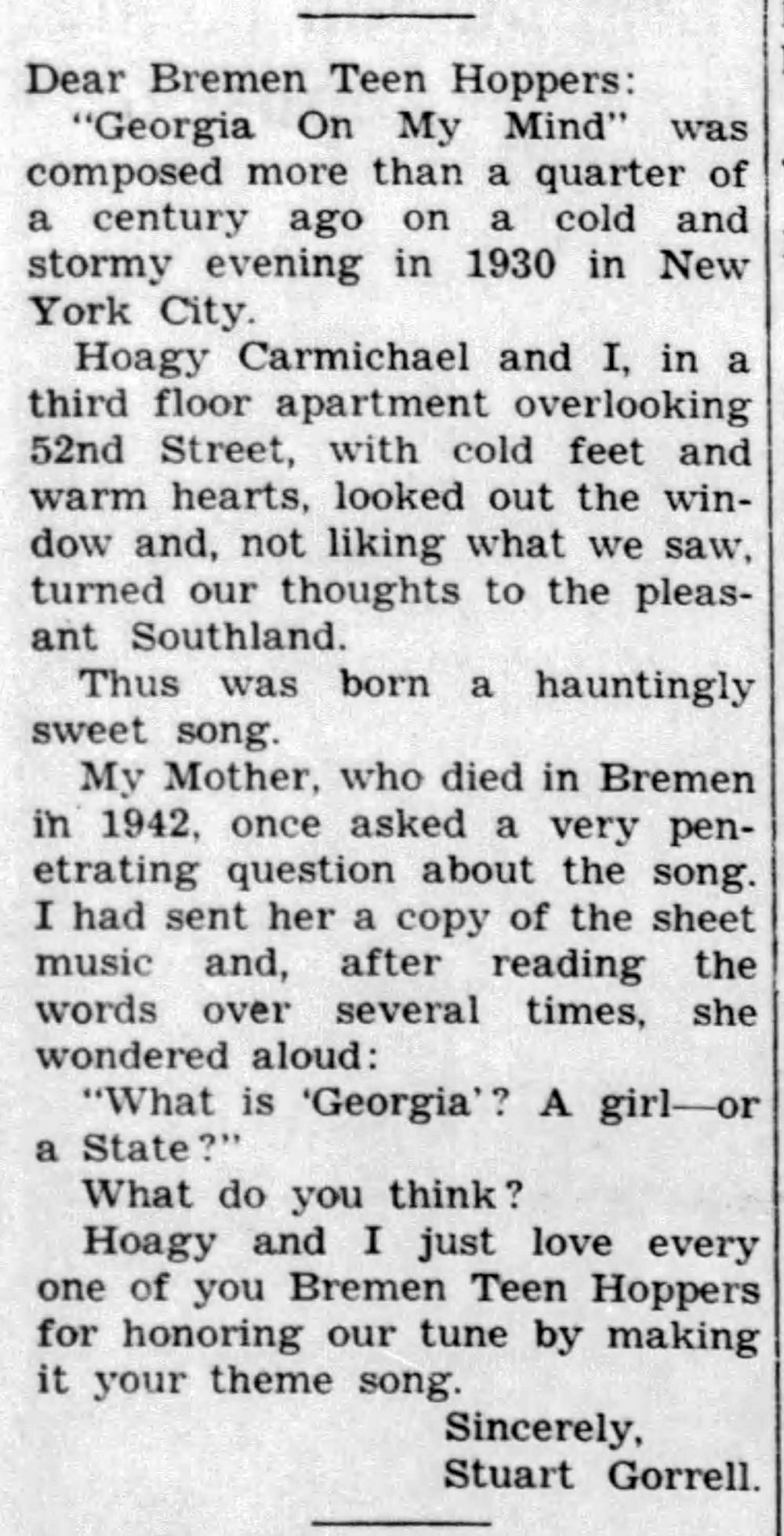 Stuart Gorrell's "Georgia on My Mind" story published in the Bremen Enquirer, 3 Aug 1961. This accompanied his response to his home town's Teen Hop patrons choosing the song as their theme song.